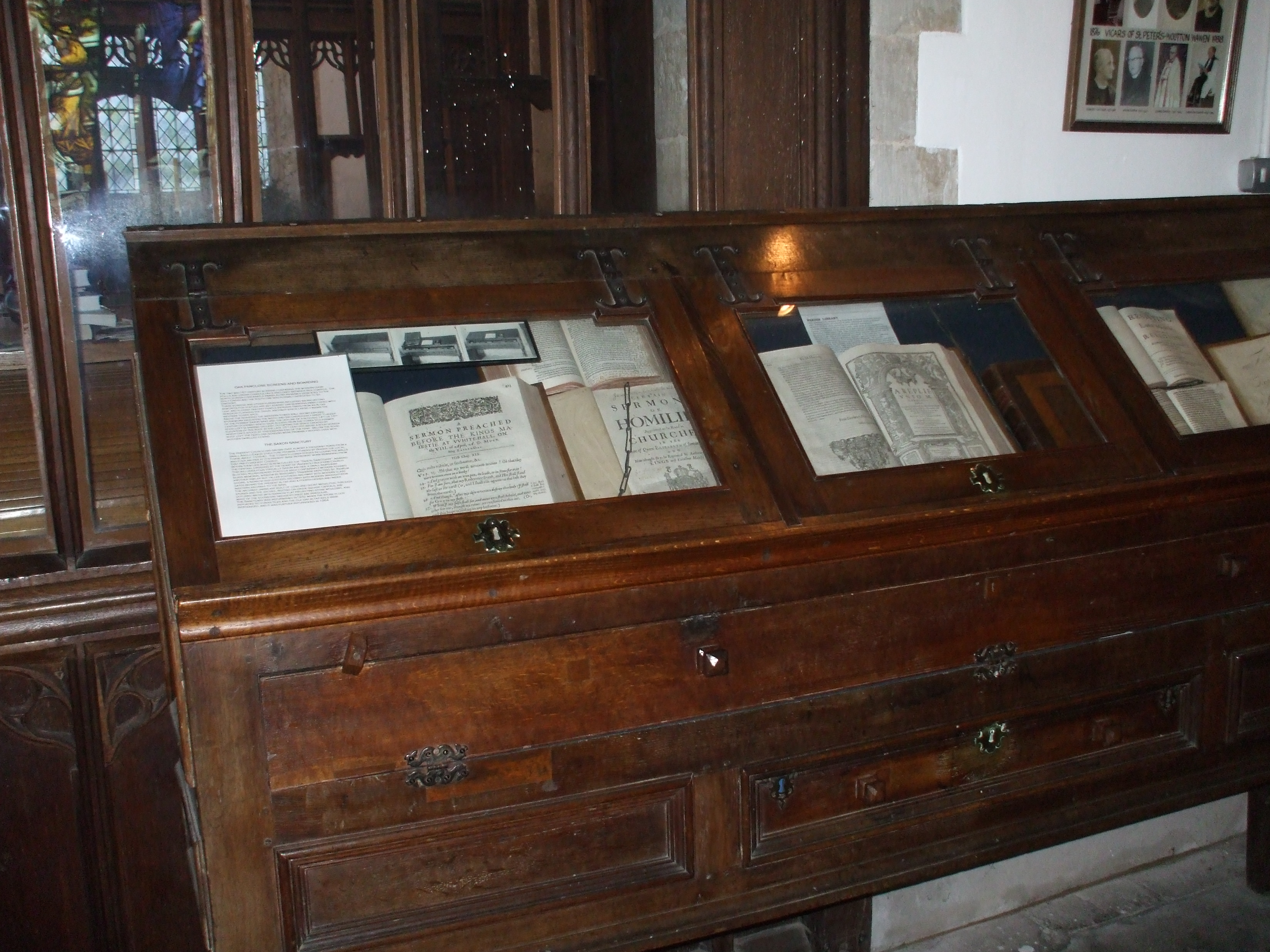 St peters Wootton Wawen the chained library